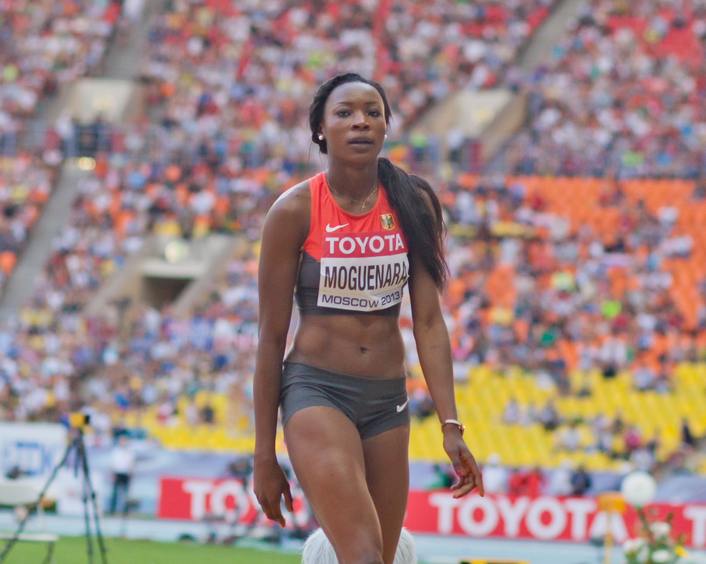 Sosthene Moguenara during 2013 World Championships in Athletics in Moscow.